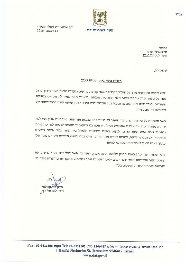 Letter by Israeli Religious Affairs Minister Rabbi David Azulai condemning an attack on a synagogue in Arad.